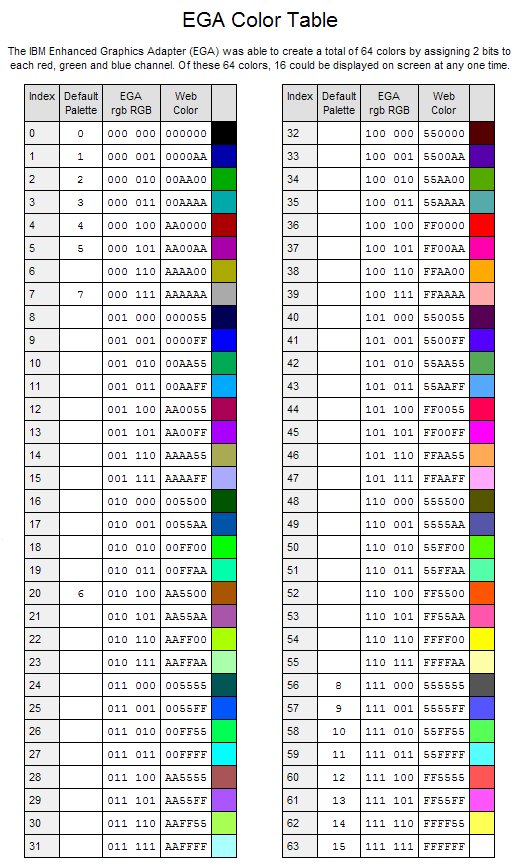 This is a chart containing all the colors available in IBM EGA.